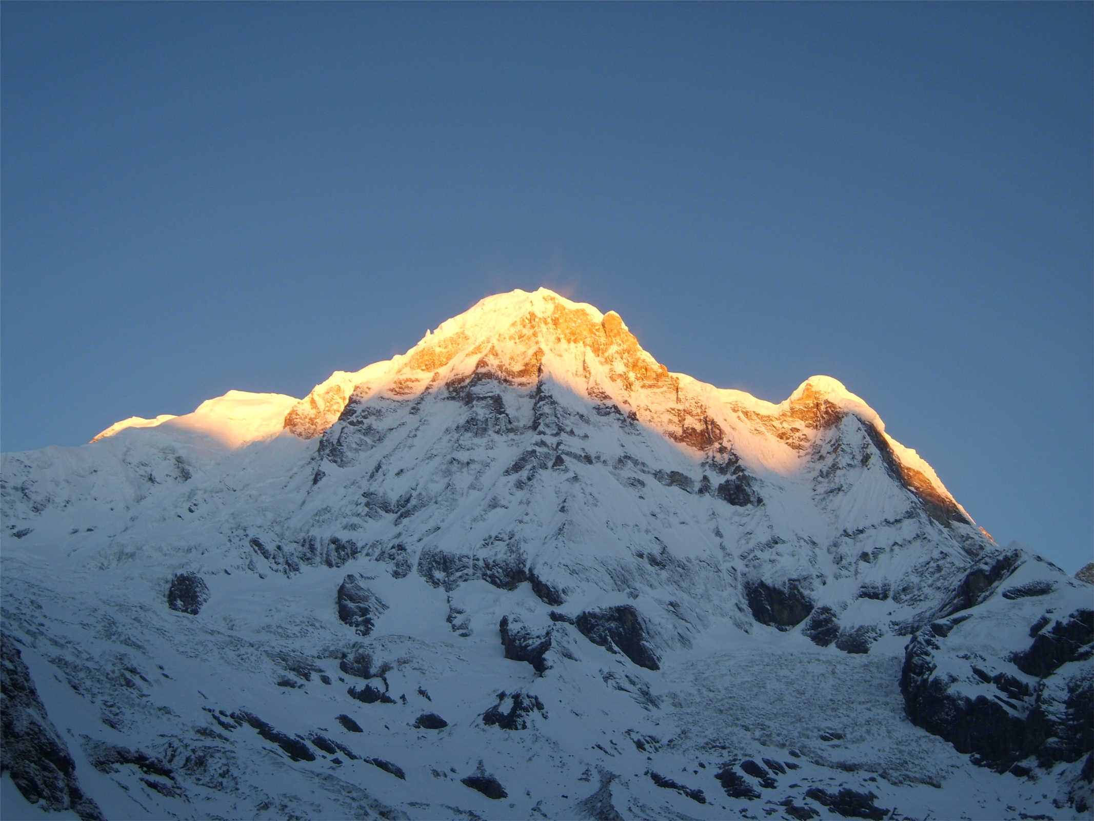 Photograph of Annapurna South from Annapurna base camp (4,130 m) before sunrise.